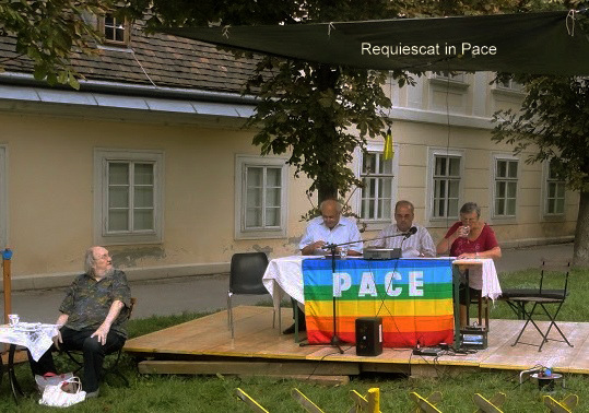 Rolf Schwendter (left), the readers are, from left to right: Meinhard Kronister, Werner J. Grüner and Ulrike Makomaski. The reading took place near Augartenspitz, on occasion of "Day of Peace" 2011. Austria's celebration day is, like in Germany, September_1st.